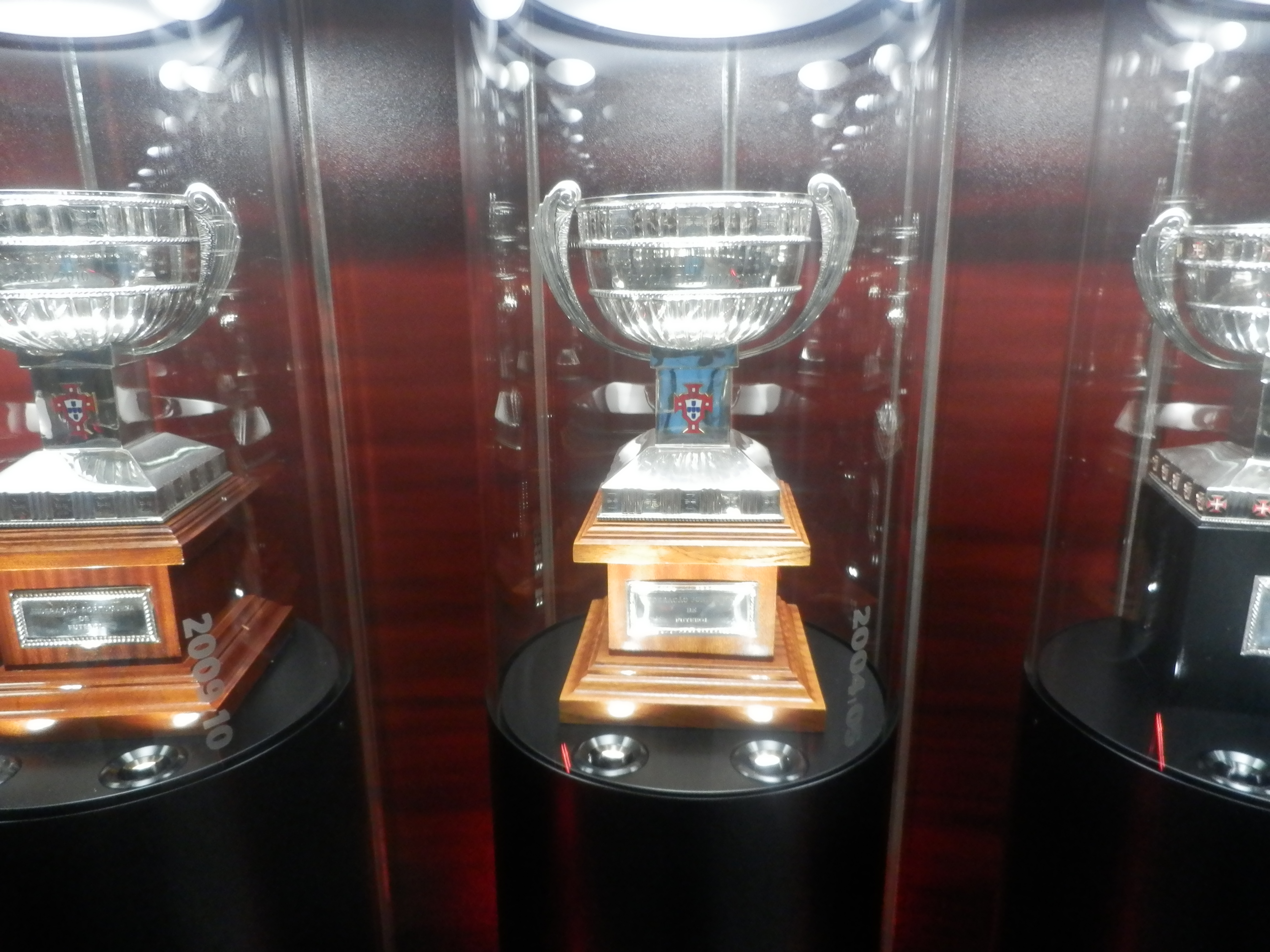 Adjacent is 2009-10 trophy